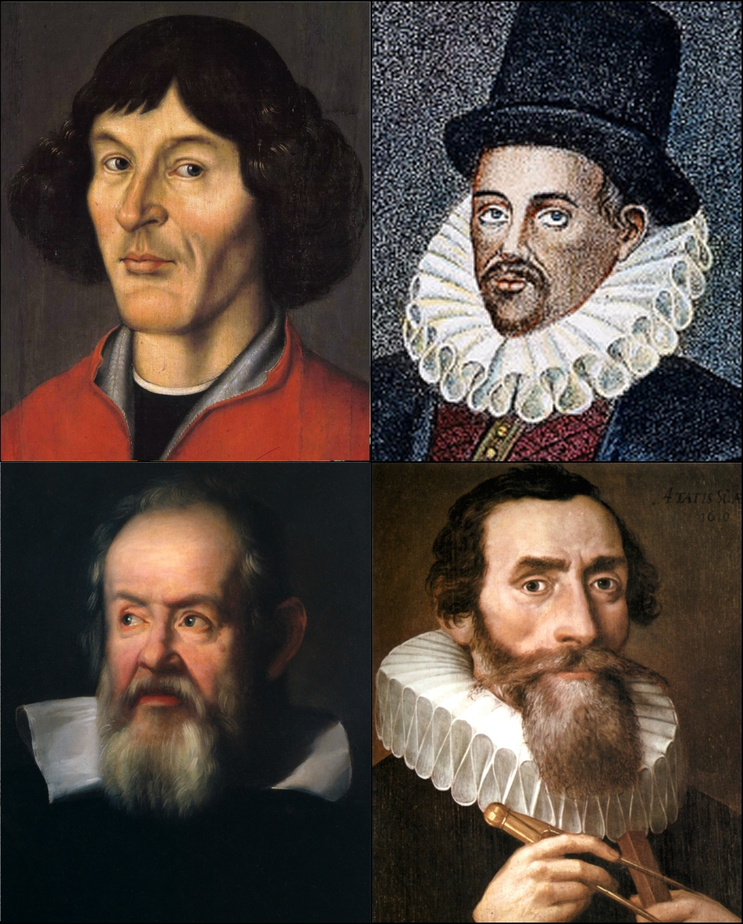 Kopernikus, Gilbert, Galilee, Kepler